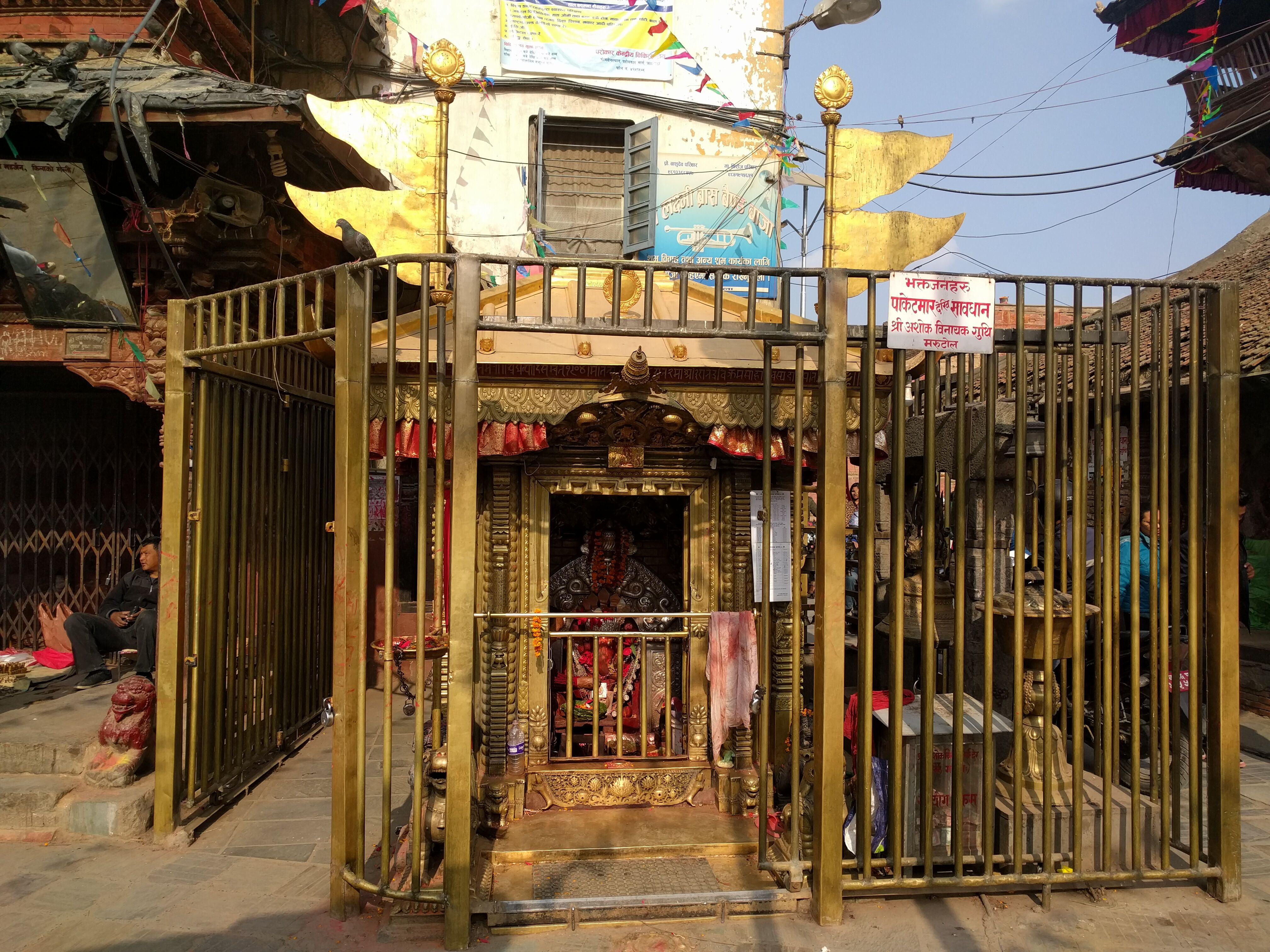 The Ganesh shrine that is located in the eastern part of Kathmandu Durbar Square, right next to Kasthamandap. This Ashok Binayak temple is one of the most popular Ganesh temples of Nepal.